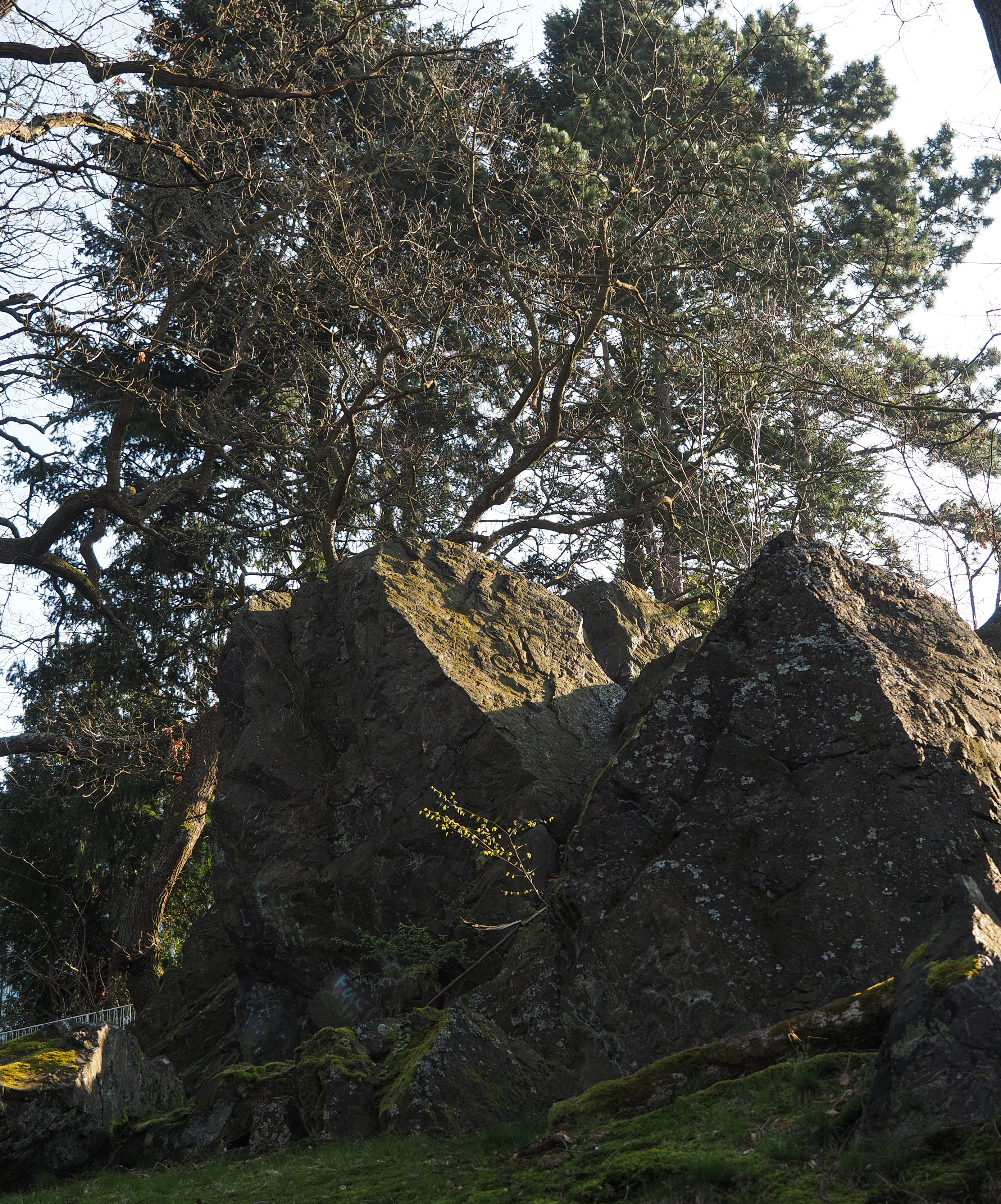 Rabenstein in Bad Homburg, zentrale Felsgruppe mit Monogramm von Landgraf Gustav